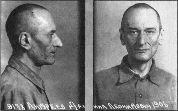 Photo of Daniil Andreev made by prison authorities.